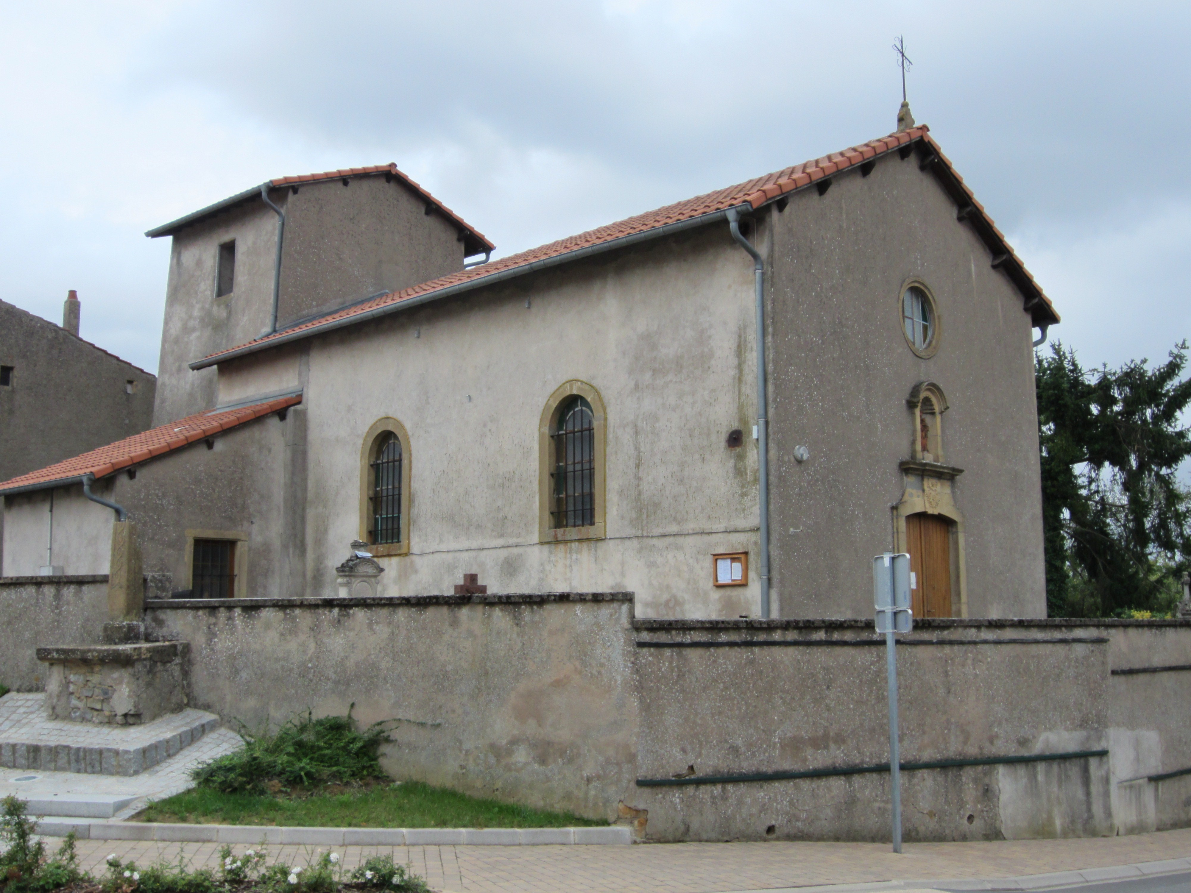 Description chapelle saint nicolas Reinange Volstroff Date8 September 2011Sourcemon appareil photoAuthorAimelaimePermission(Reusing this file) chapelle saint nicolas Reinange Volstroff